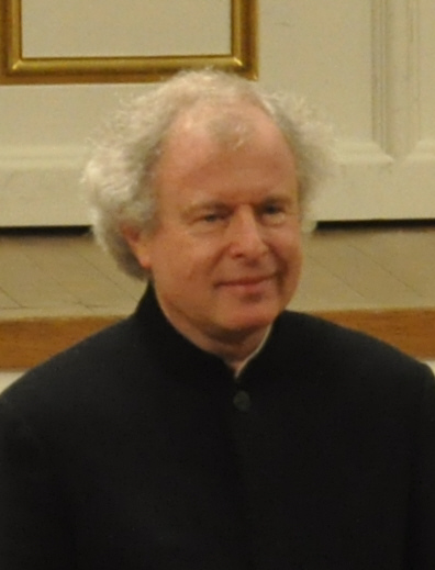 András Schiff, after a concert at the Salzburger Pfingstfestspiele 2013